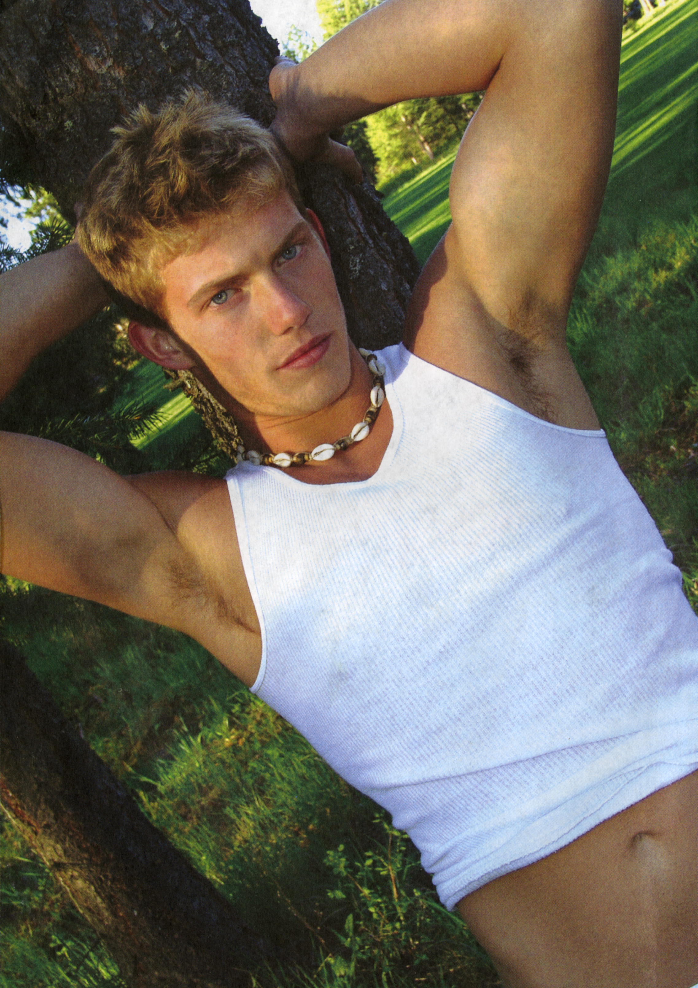 An American lad sports a ribbed tank-top.